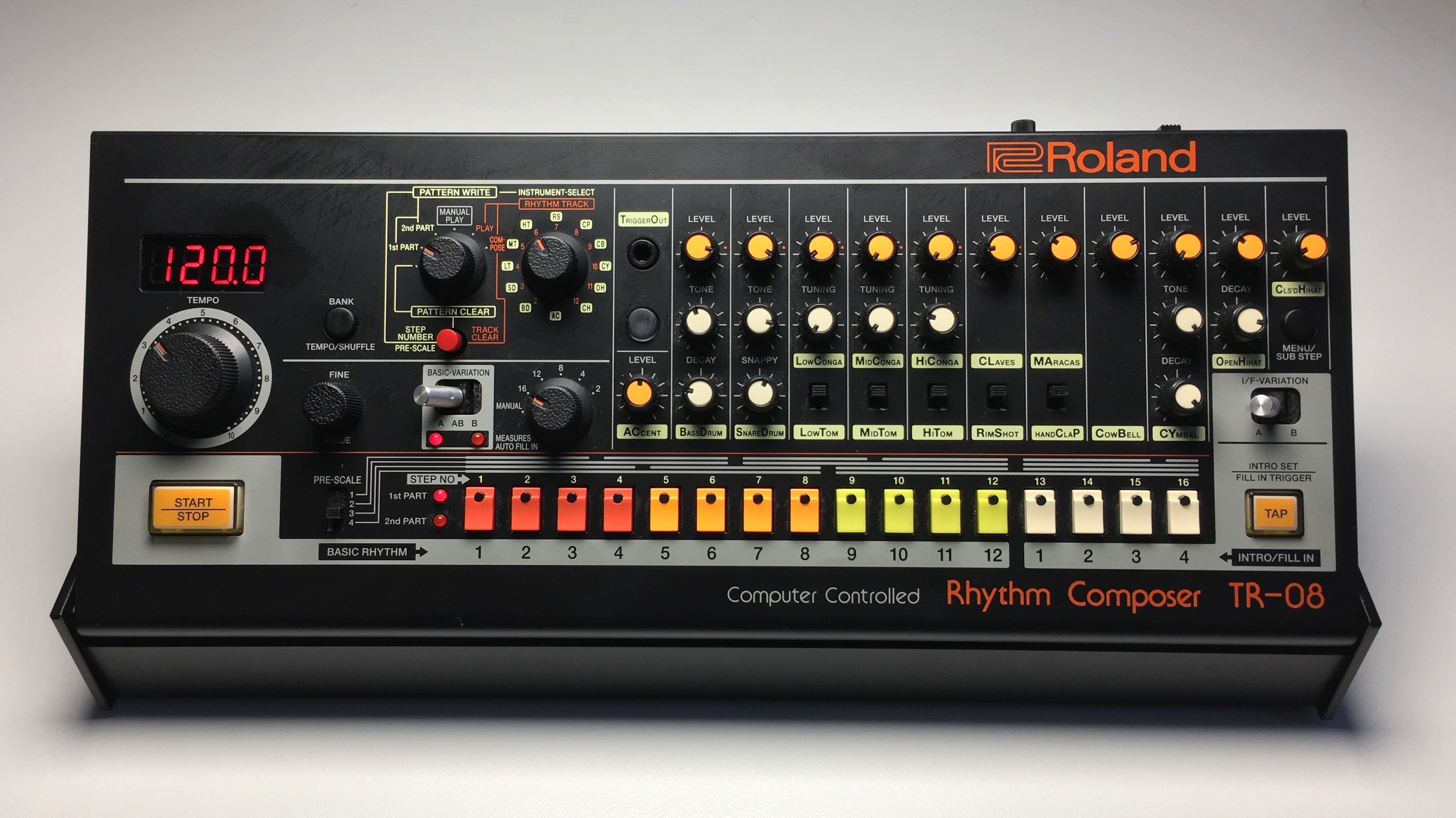 Image of Roland TR-08, a modern remake of the Roland TR-808. Roland_TR-808